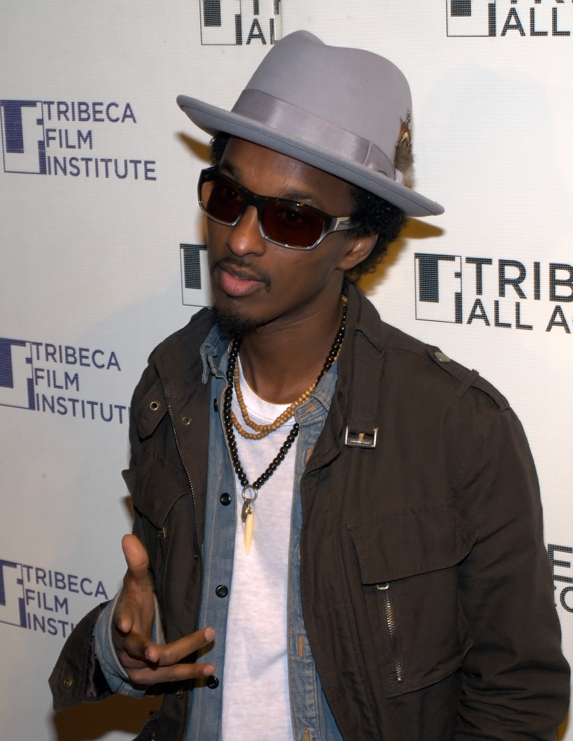 K'naan at Tribeca Film Festival 2010